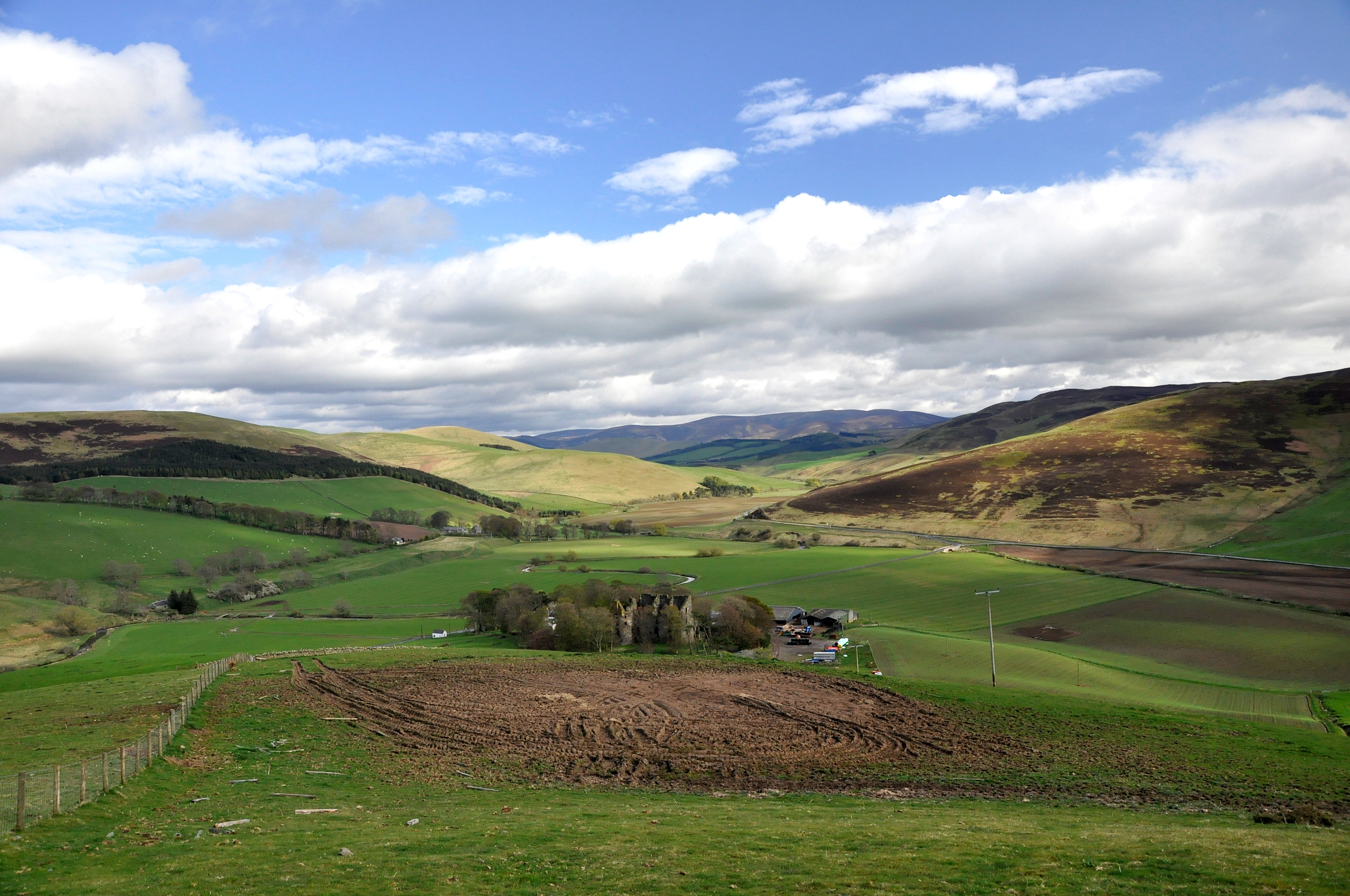 Drochil Castle en Drochil Castle farmhouse